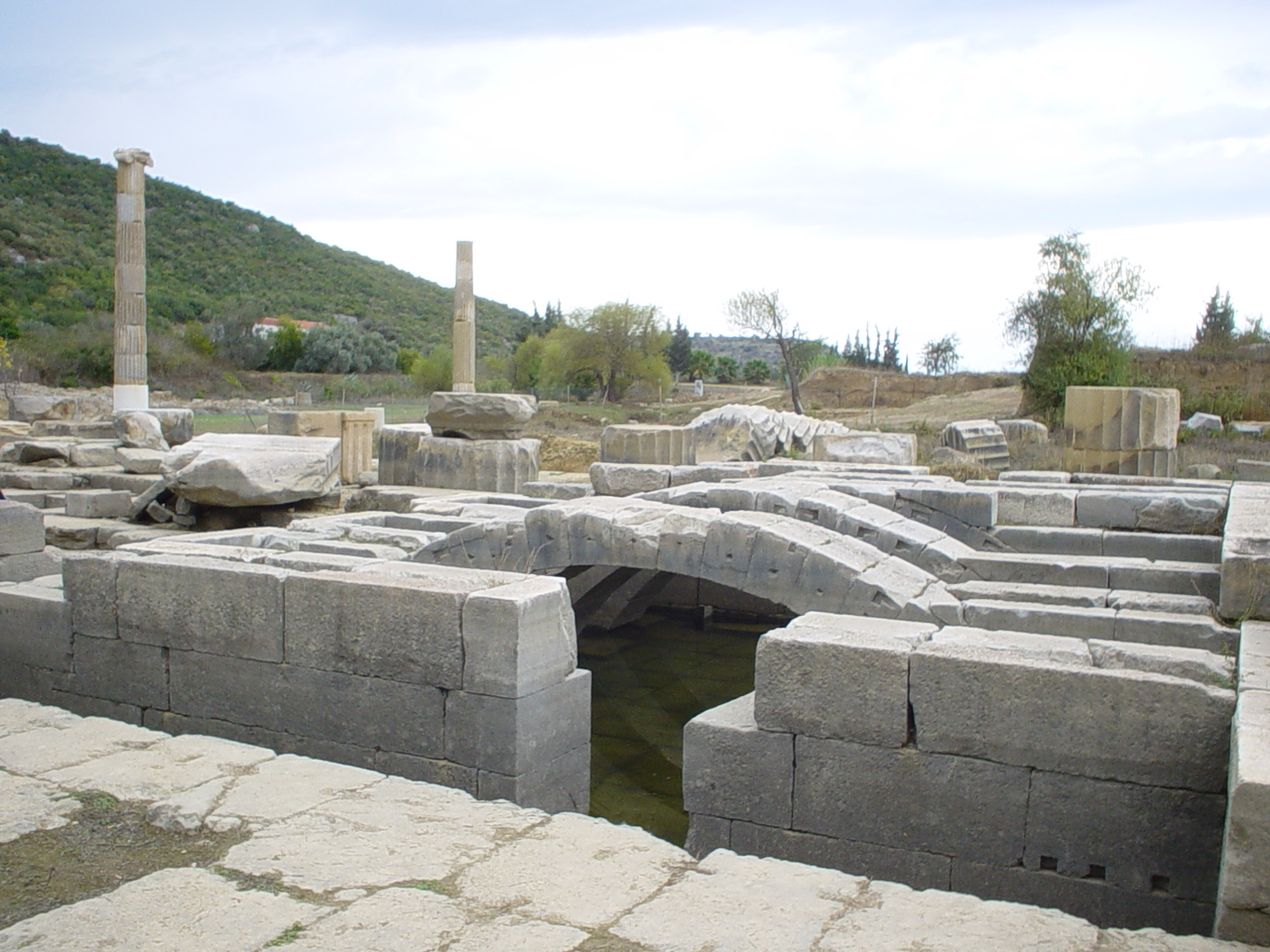 The temple of Claros in İzmir Province.